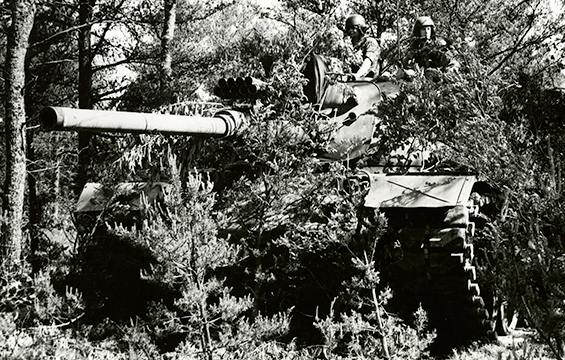 Members of Troop A, 237th Cavalry, 73rd Infantry Brigade provide security for infantry Soldiers during a combined arms training exercise at Camp Grayling, Mich.